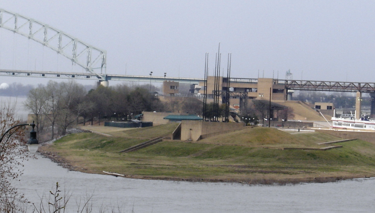 Photo by Nima Kasraie